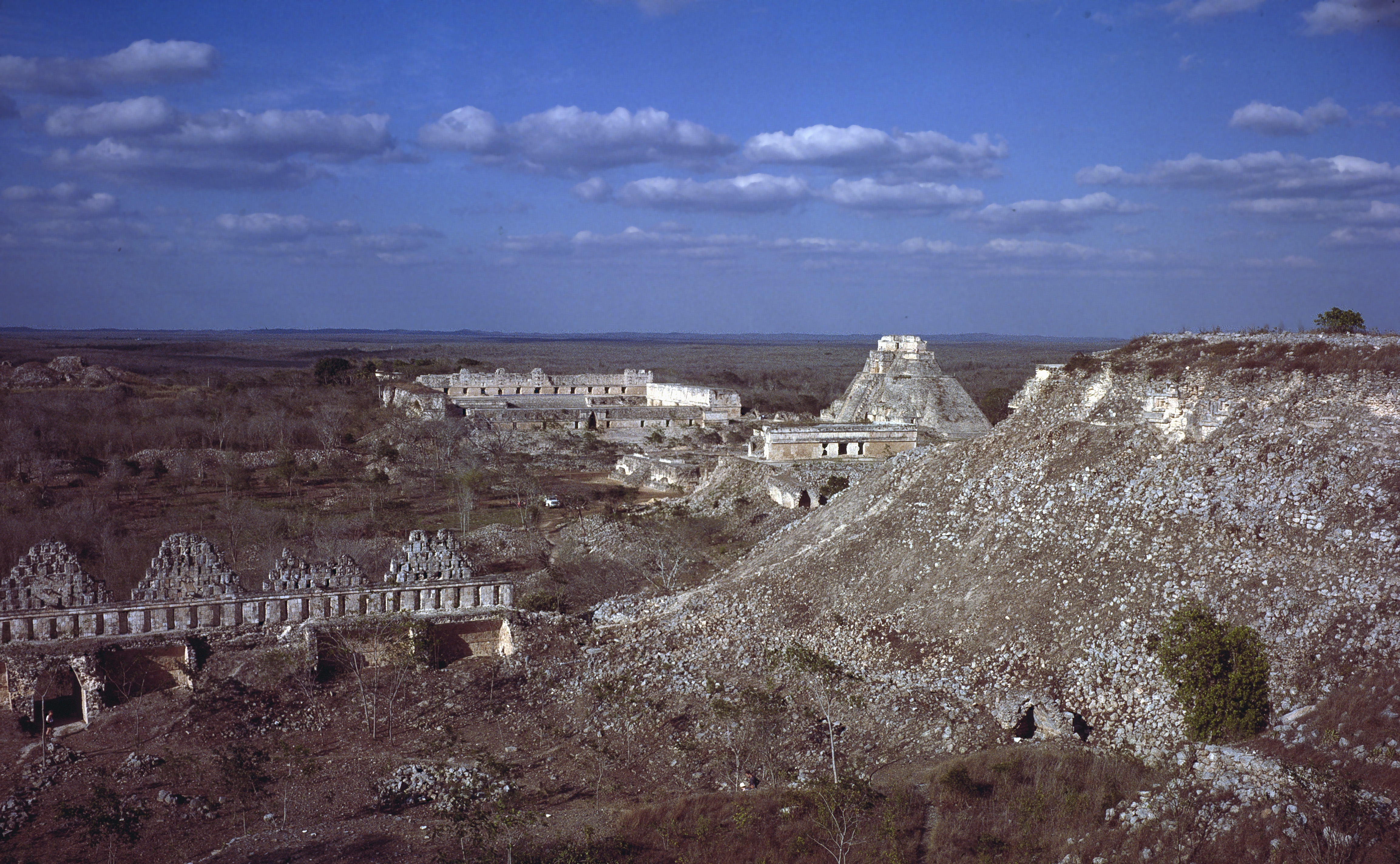 Uxmal, Yucatan, Mexico: Overview. View from the Palomar group pyramid, towards the center of the site.